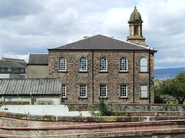 St Andrews Church. Viewed from Port Glasgow railway station. Bears a passing resemblance to Inverkip Church 154203. See also 337496 and 351564.